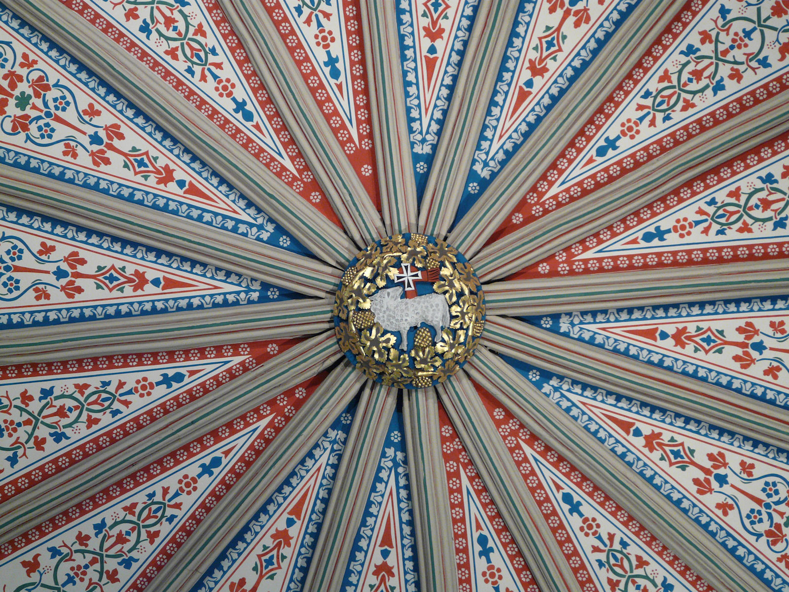 The central boss on the Gothic vault above the Chapter House of York Minster, York, England